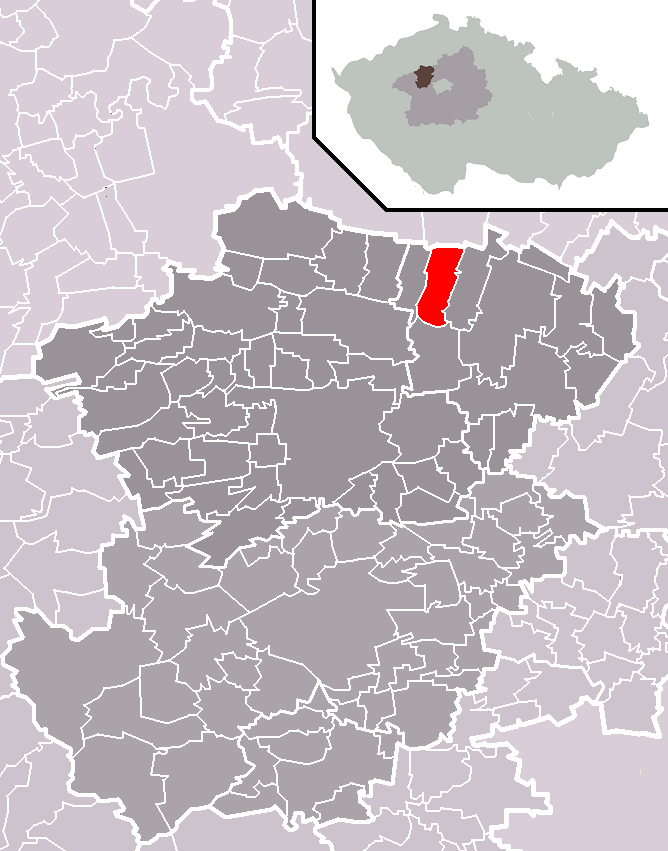 Location of Kmetiněves municipality within Kladno District and administrative area of Slaný as a Municipality with Extended Competence.